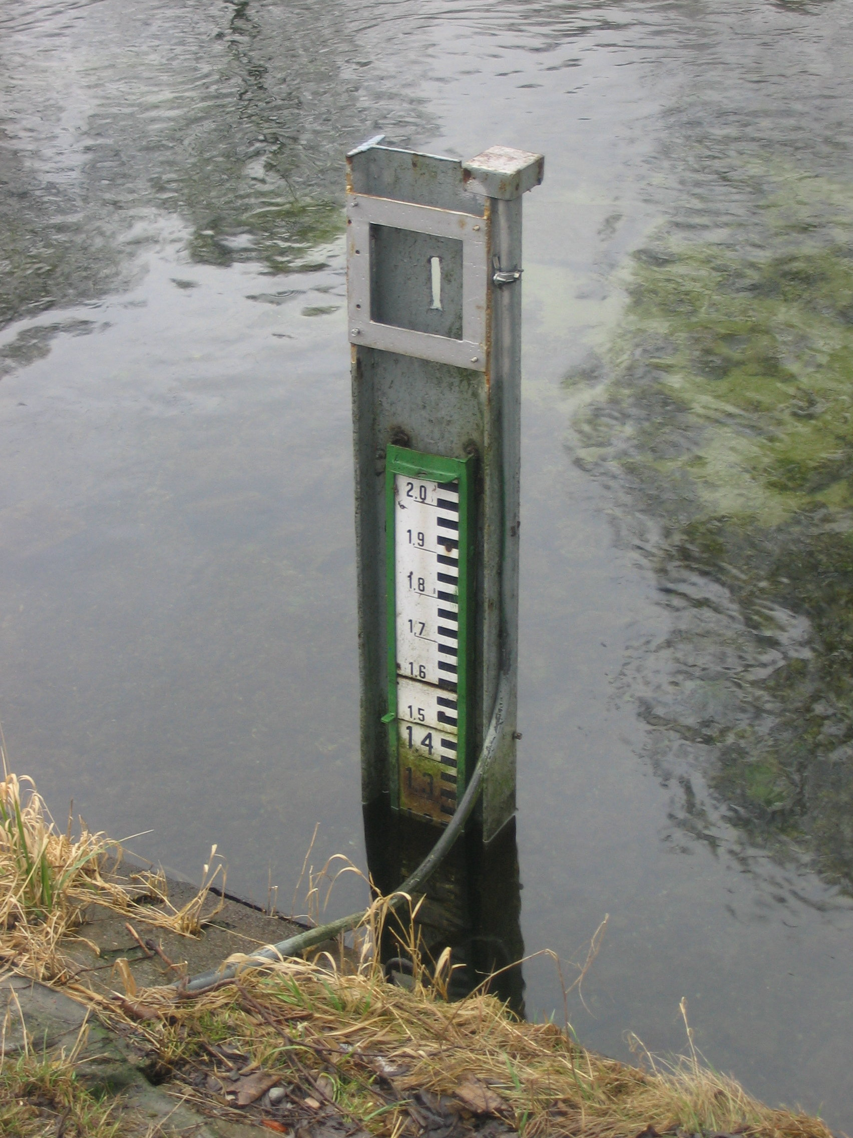 Stream gauge at Piaśnica river, down Żarnowiec Lake.